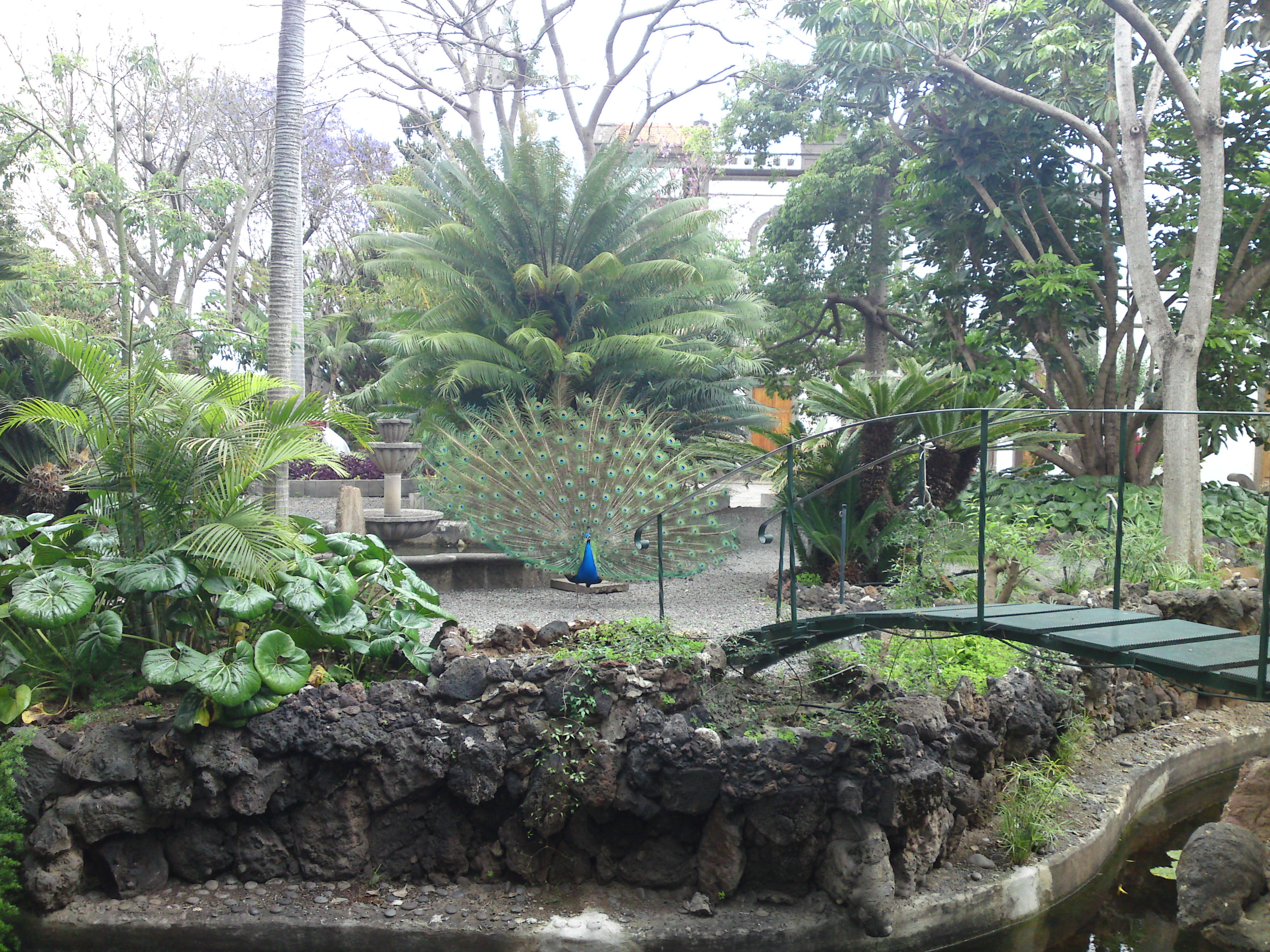 Botanical Gardens of the Duchess of Arucas (Jardín de la Marquesa de Arucas), Gran Canaria